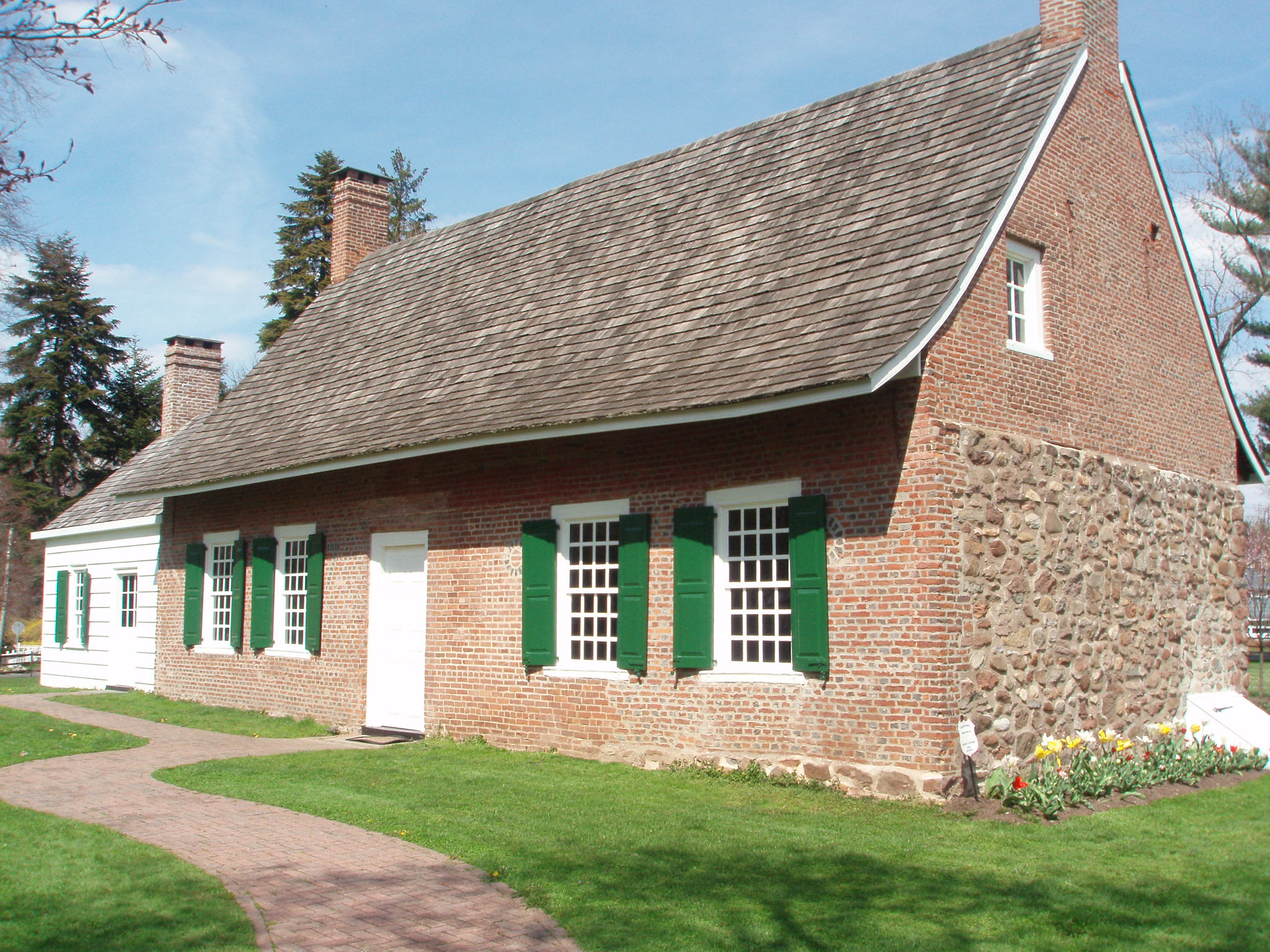 Historic DeWint House George Washington Headquarter's in Tappan, New York